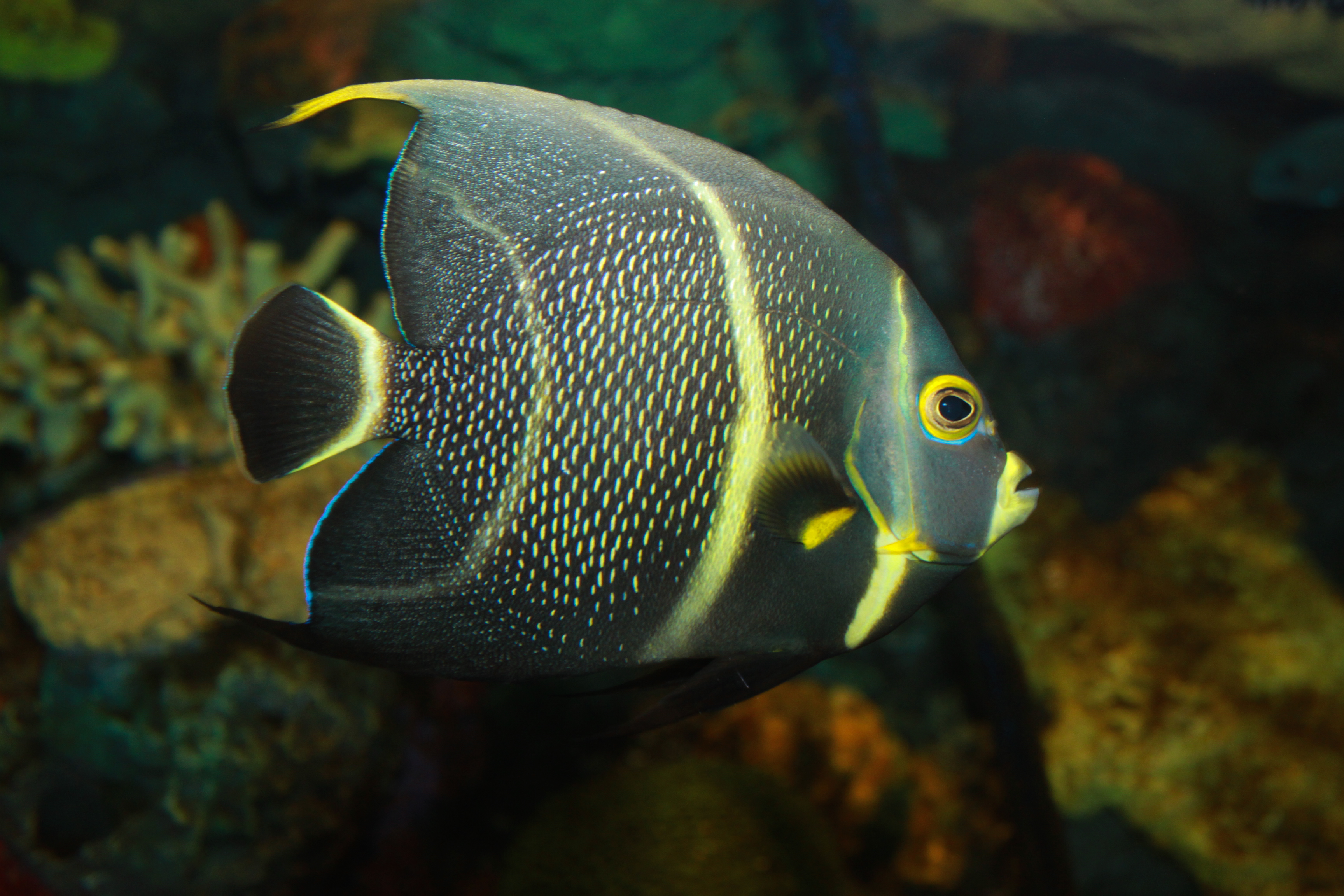 French Angelfish, Pomacanthus paru